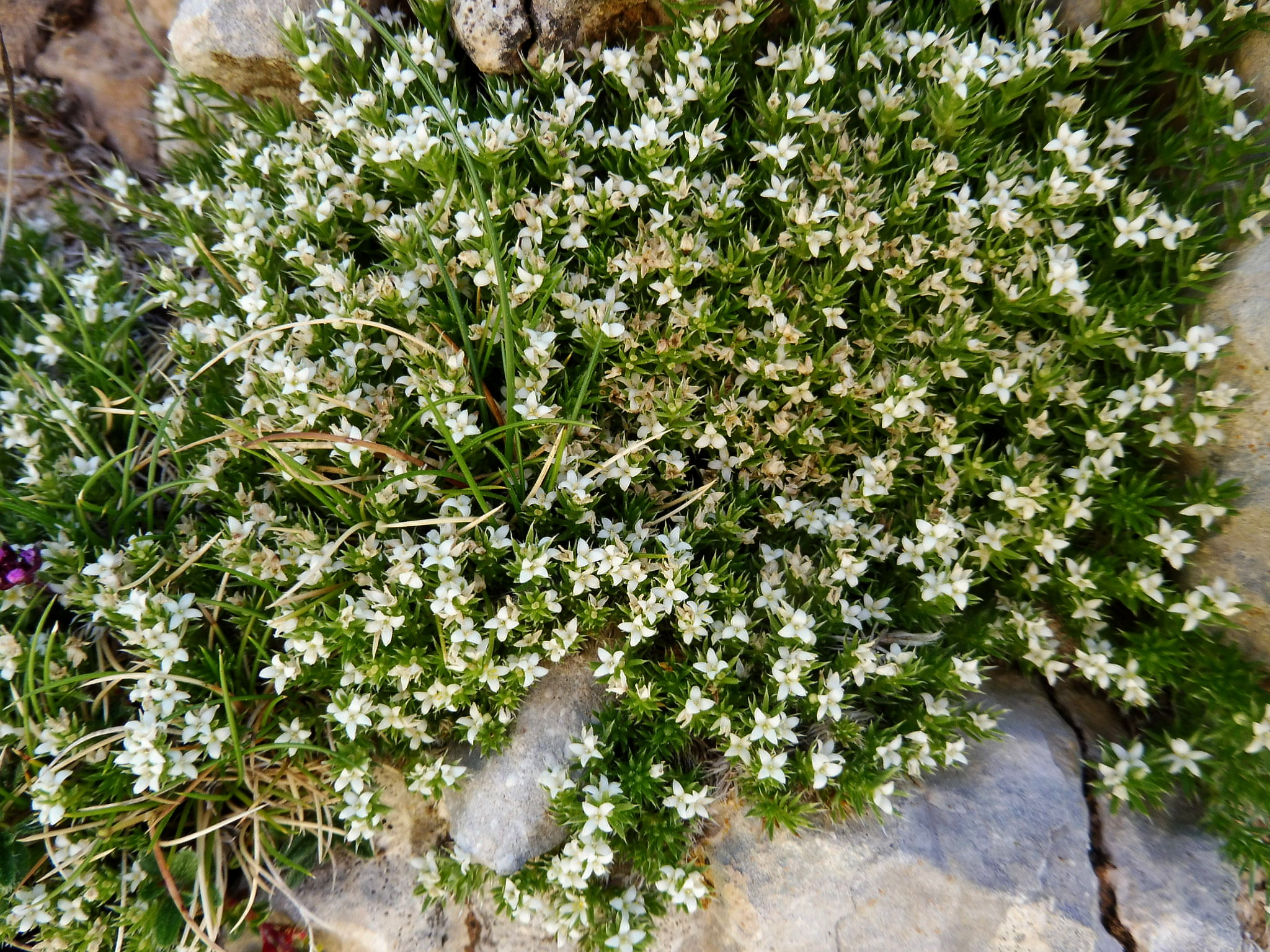 Arenaria erinacea. In la Bòfia, Odèn (Solsonès - Catalunya). To 2.010 m. altitude This is a a photo of a natural area in Catalonia, Spain, with id: ES510196